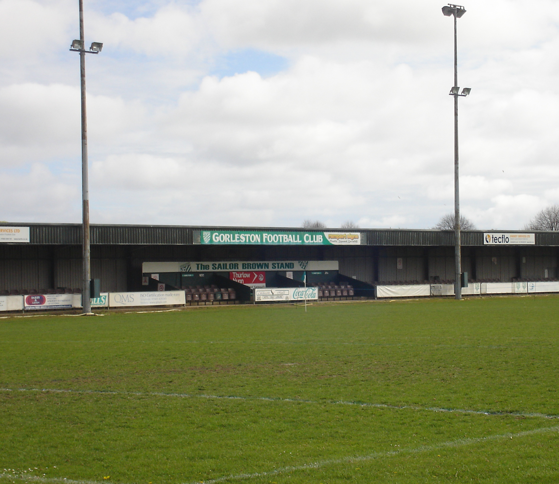 Emerald Park is the home of Gorleston football club in Gorleston, Norfolk